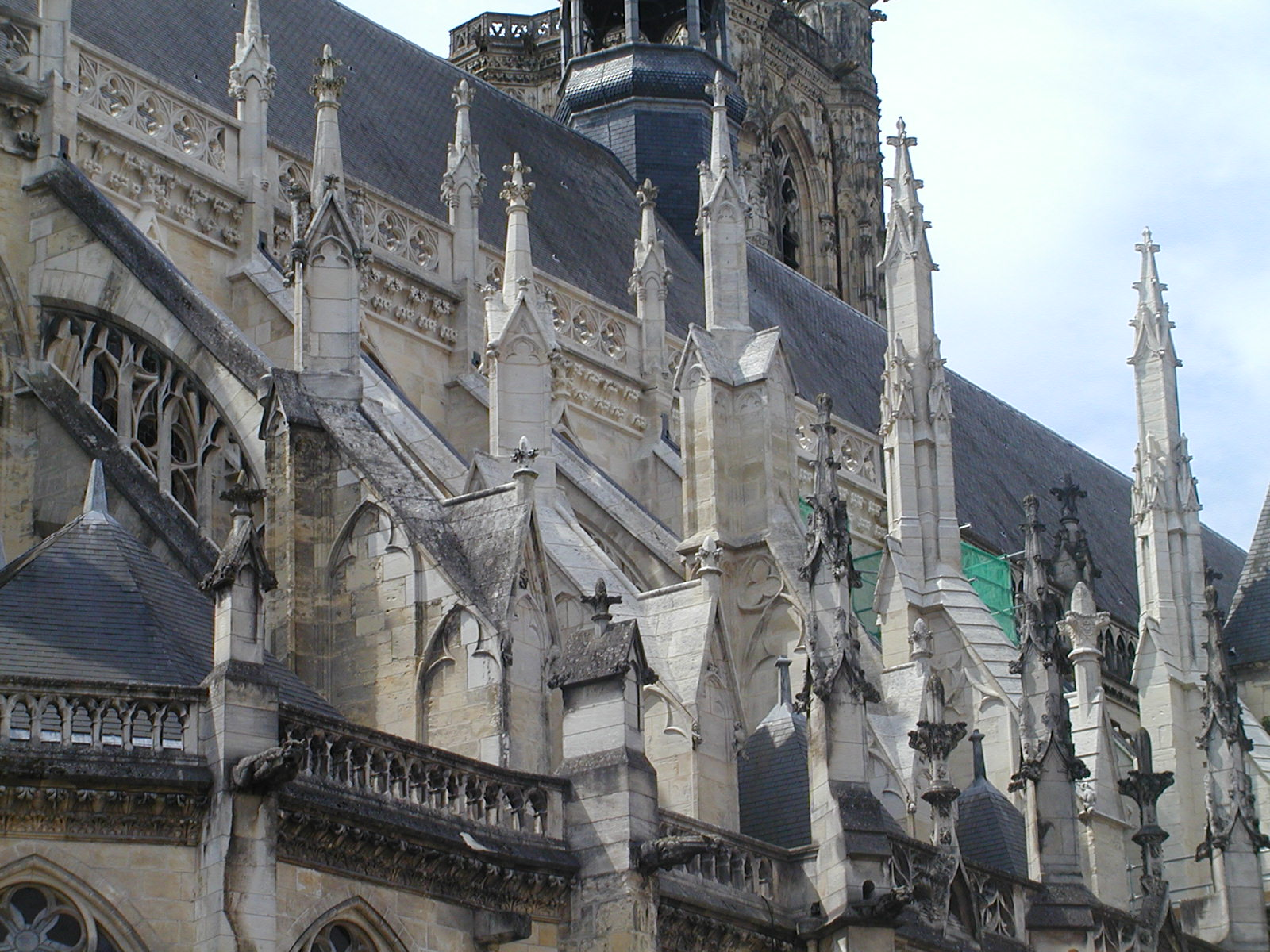 Nevers, Cathedrale, Buttresses